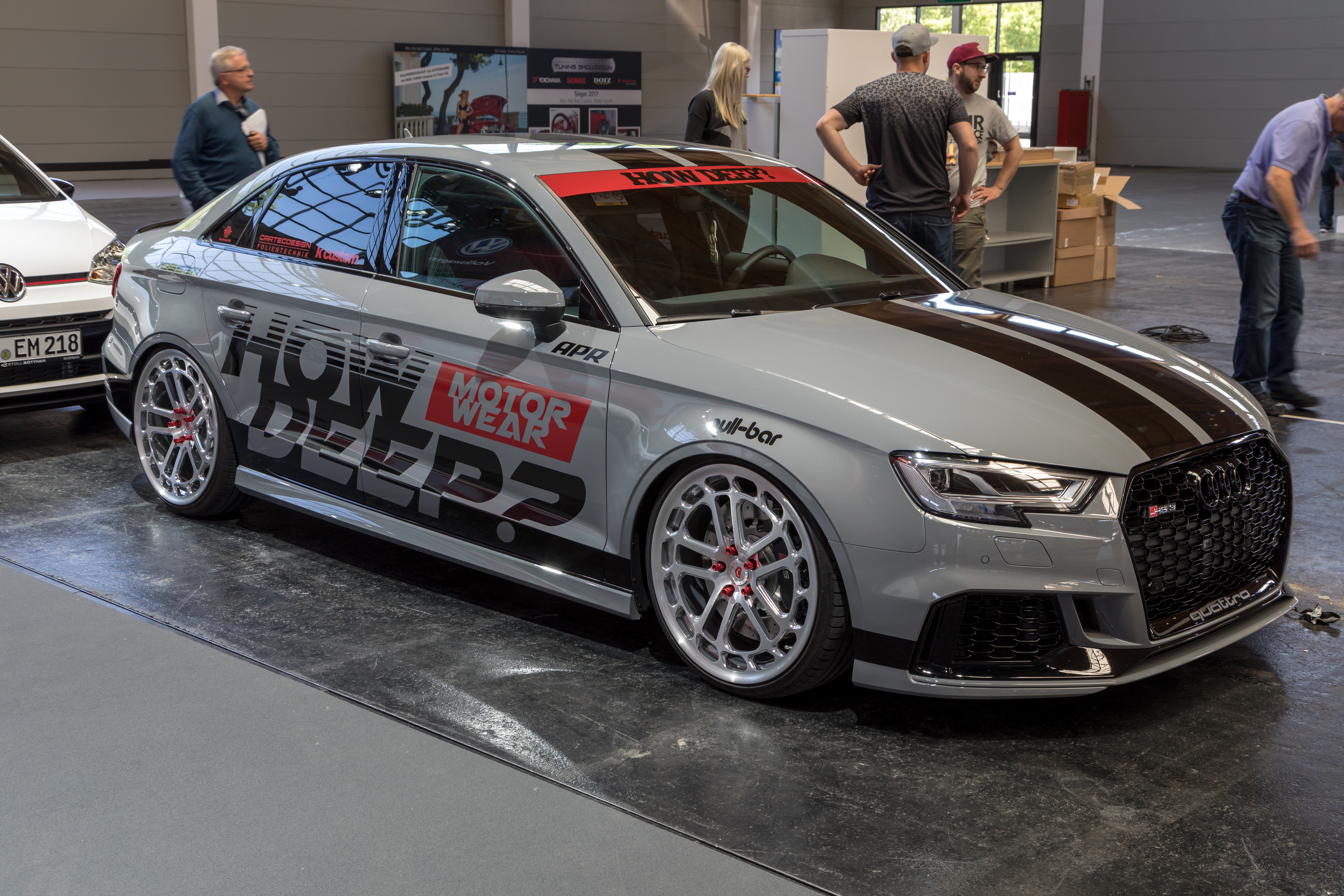 Audi RS3 sedan at Tuning World Bodensee 2018